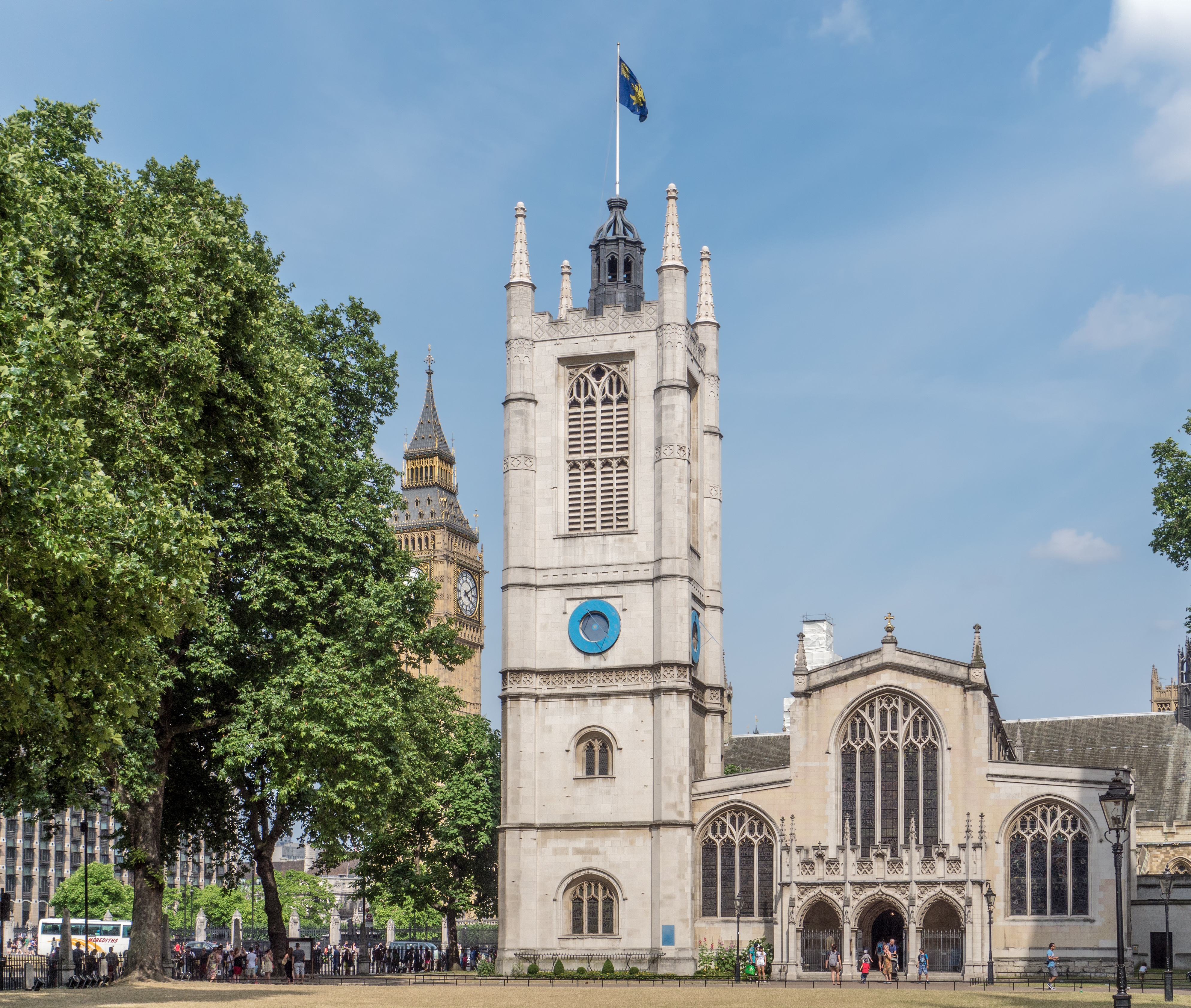 St Margaret's, Westminster, London, England, United Kingdom